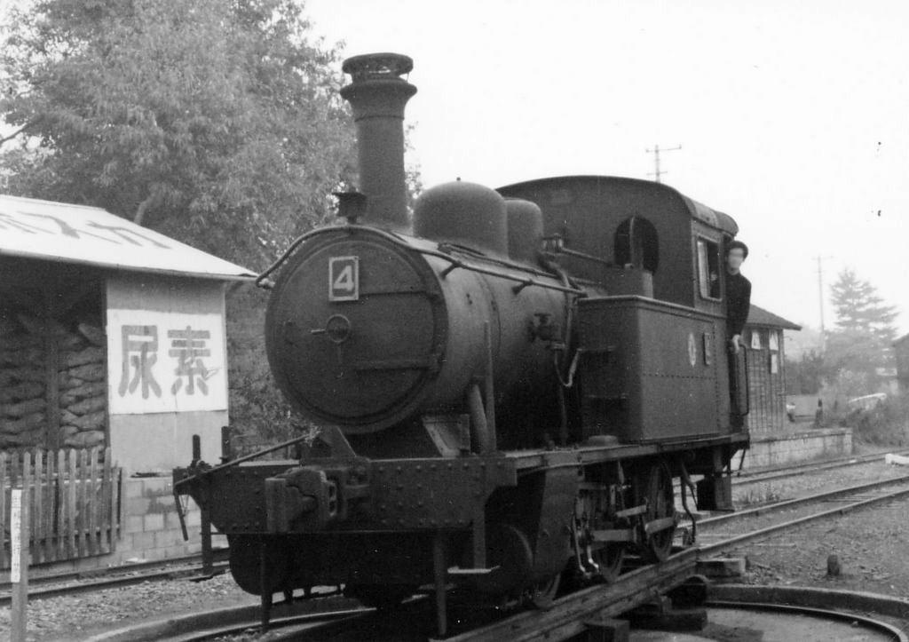 Ryugasaki Railway steam locomotive #4 at Ryugasaki Station